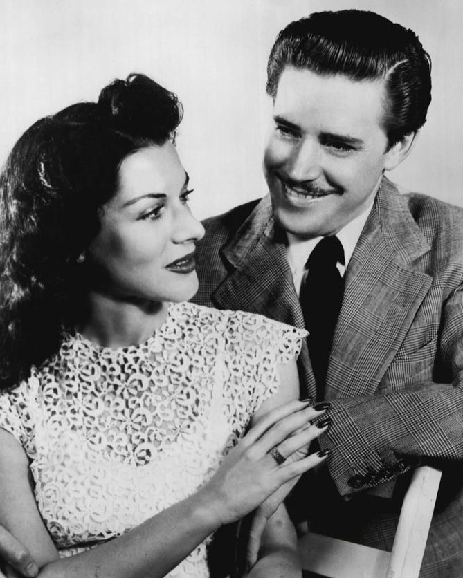 Photo of Charlotte Manson as Patsy and Lon Clark as Nick Carter from the radio program Nick Carter, Master Detective.